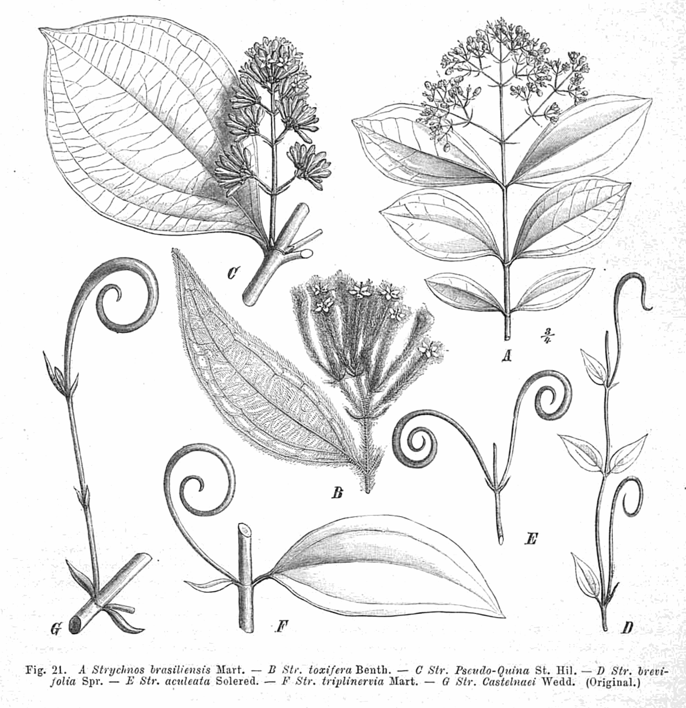 Strychnos spp. leaves.A.S. brasiliensis. B.S. toxifera. C.S. pseudoquina. D. S. brevifolia. E. S. aculeata. F. S. triplinervia. G. S. castelnaei.